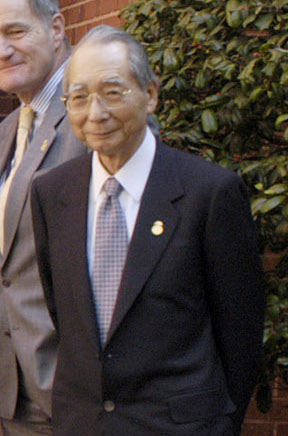 The Finance Ministers of the G7 pose for photos in Washington, D.C. on April 12, 2003.